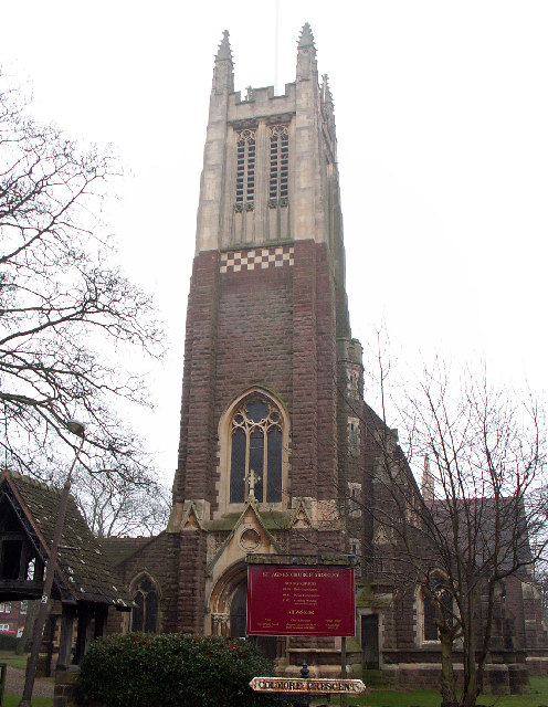 St Agnes' Church, Moseley. Colmore Crescent on which this church stands is named after William Colmore, a vicar of Moseley for over 30 years.